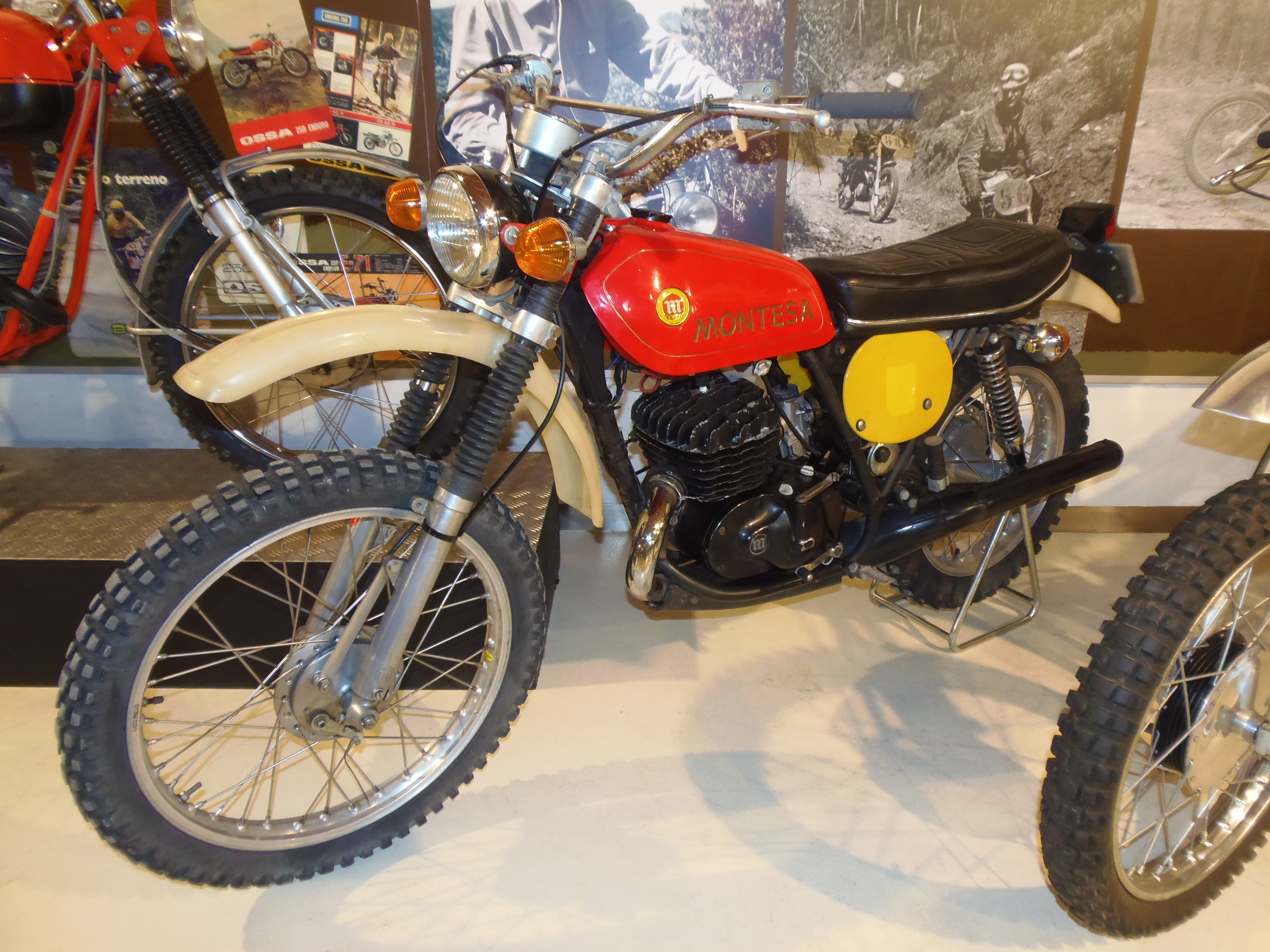 Montesa Enduro 250 K "USA" (1977). Only 600 units were built, most of them for the US market.